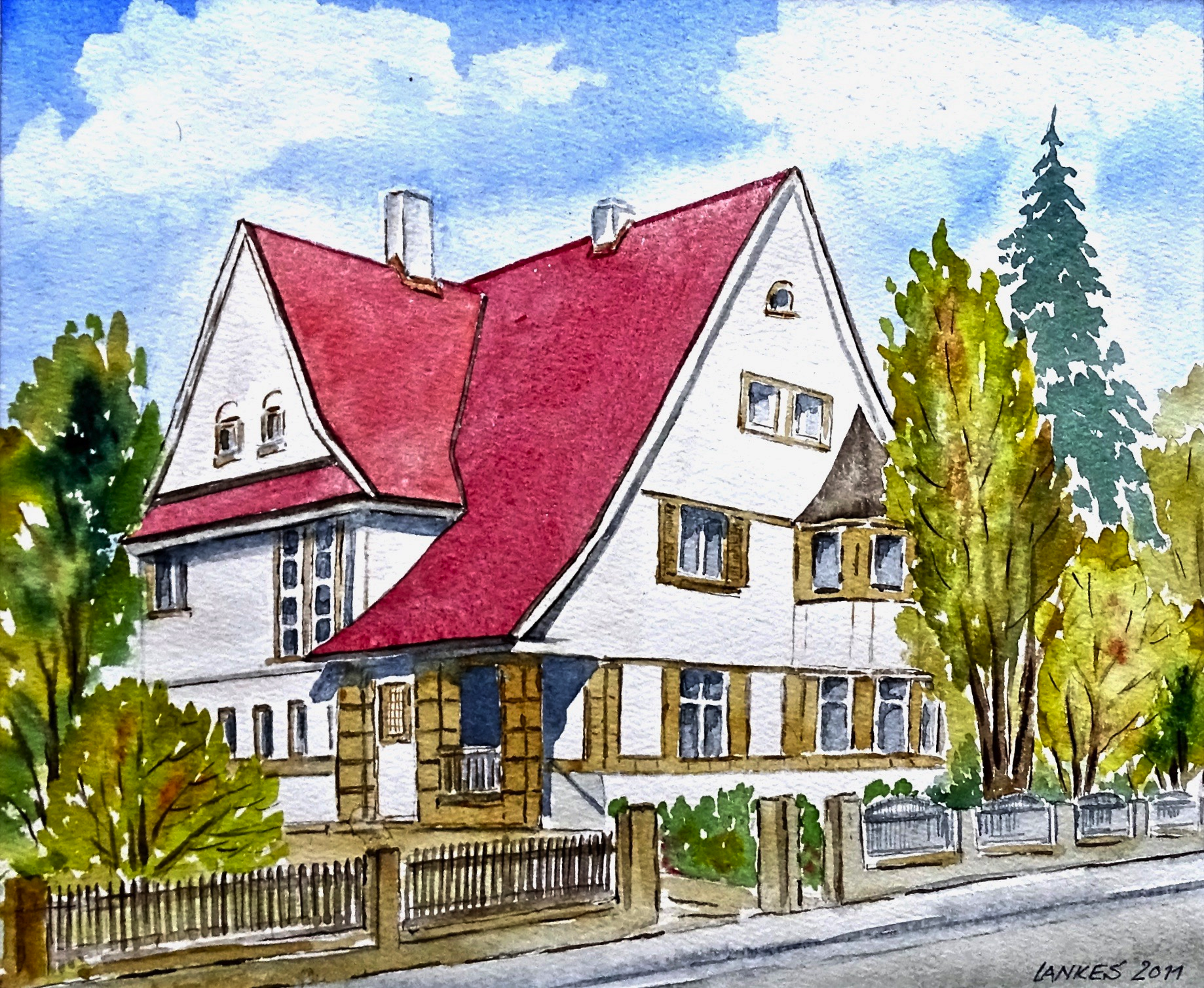 Villa Sonnenhaus in Lichtenfels, Upper Franconia, Bavaria, Germany. Aquarell painted in 2011 by the German artist Willibert Lankes, signed and dated; in the property of the Bamberger family in New Jersey, USA